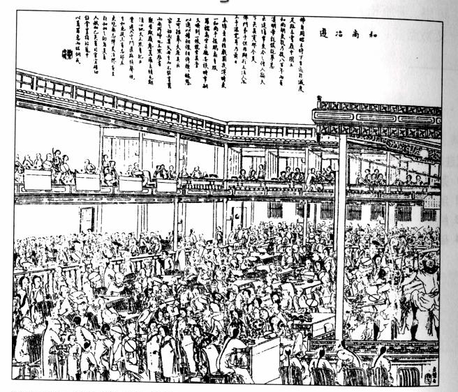 teahouse in Qing dynasty drawing